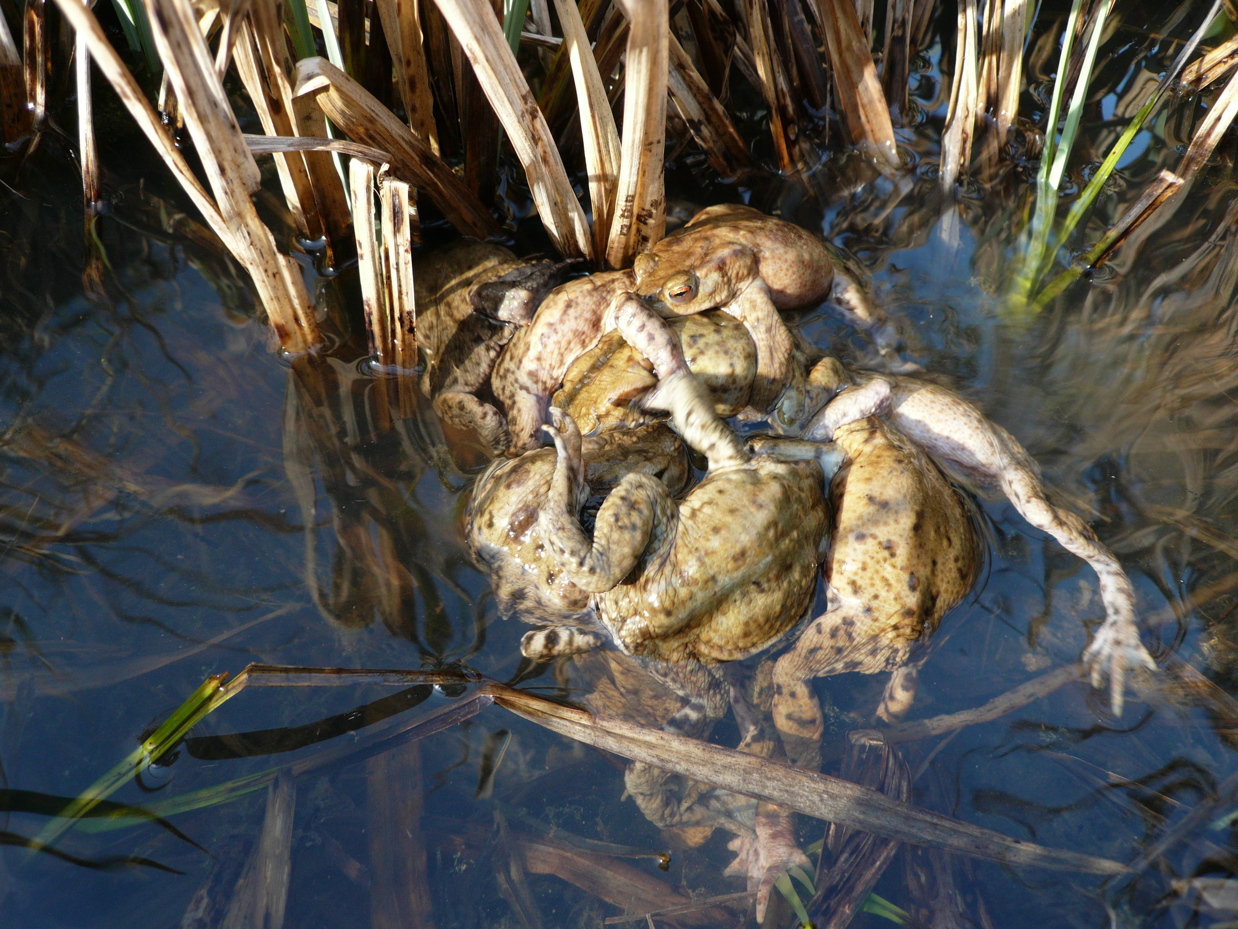 Copulating toads